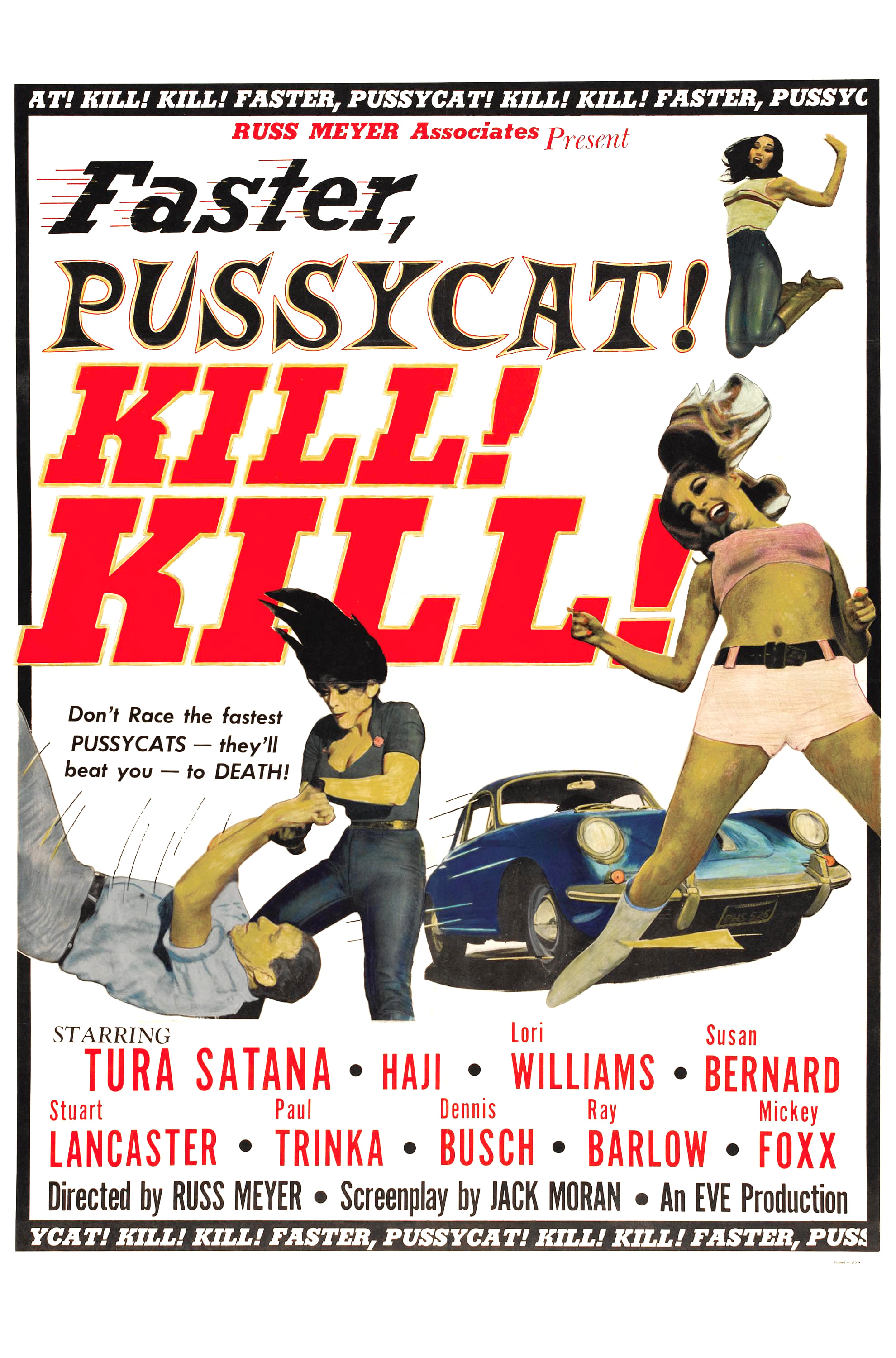 Film poster for the exploitation film Faster, Pussycat! Kill! Kill!